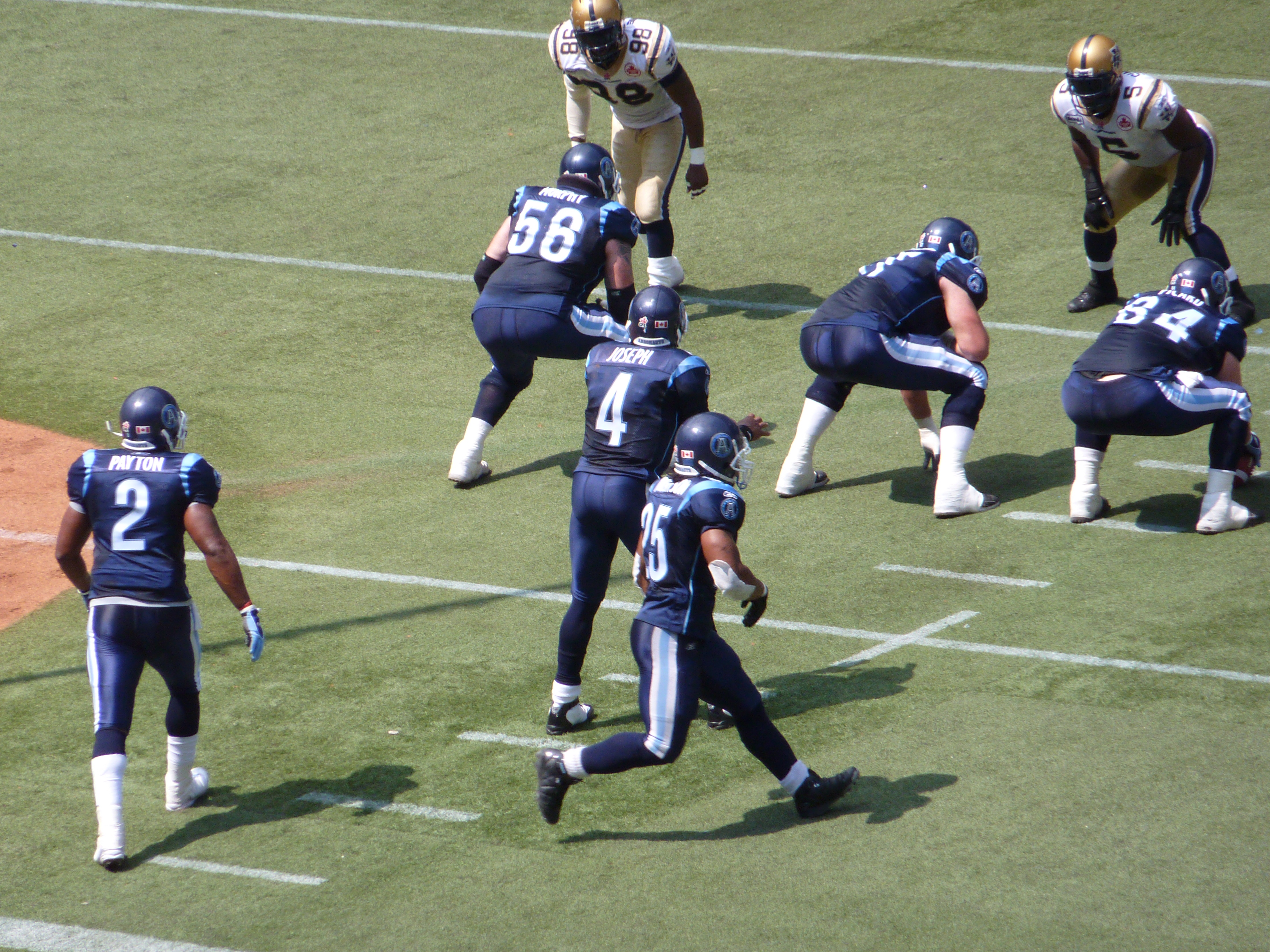 Toronto Argonauts quarterback Kerry Joseph prepares to take the snap from centre Dominic Picard with running backs Jarrett Payton and Jamal Robertson in motion.